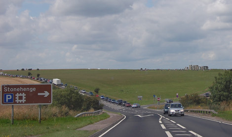 Stonehenge in Context 2 It appears dwarfed amongst the landscape. The A303 is quite busy at this spot, especially in summer.